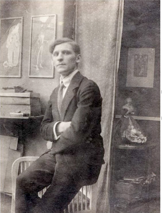 Roland Paris